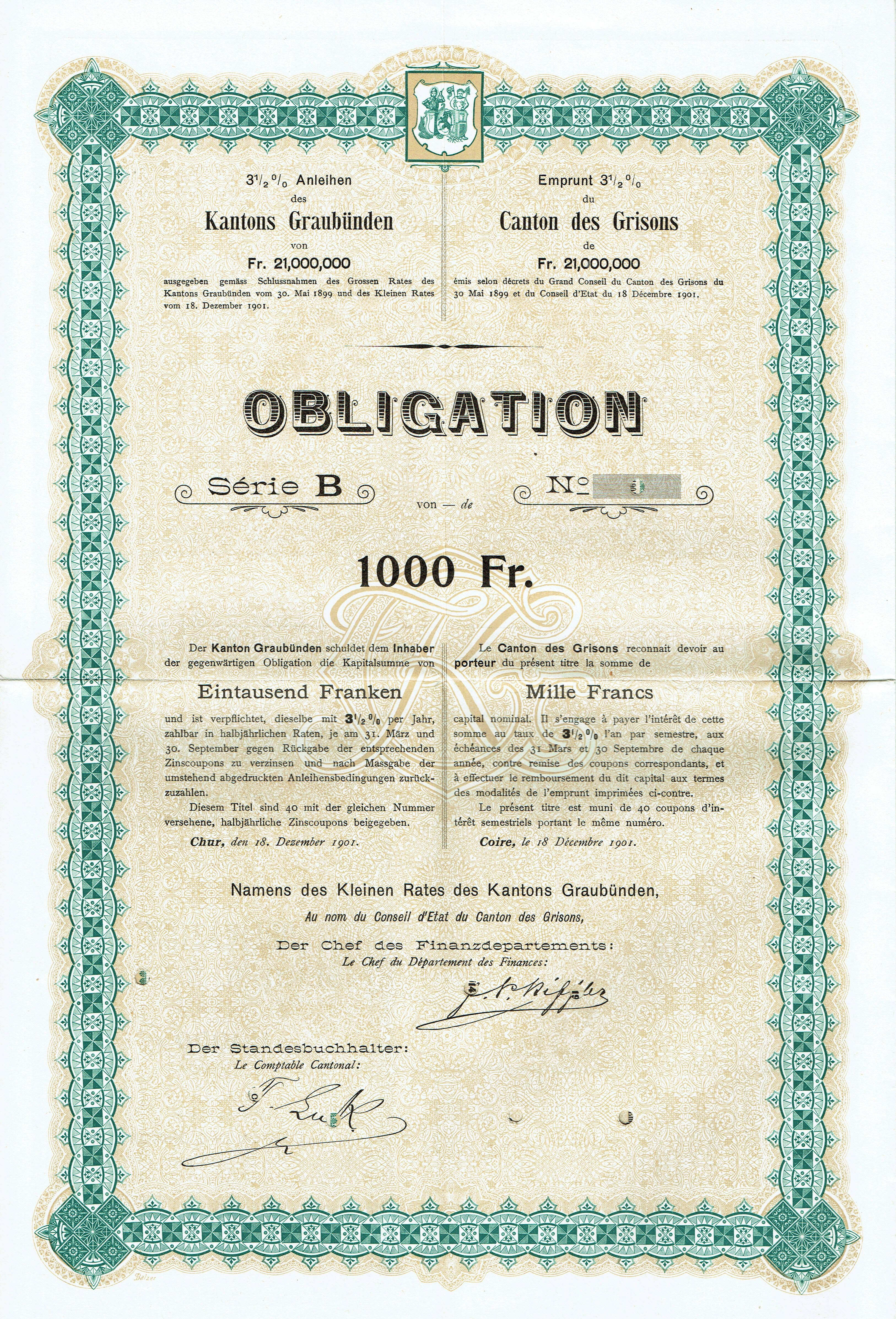 Bond of the Canton of Graubünden, issued 18. December 1901